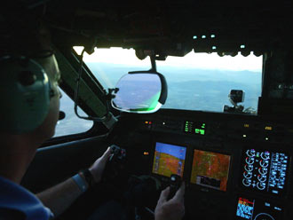 The cockpit of NASA's Gulfstream GV with a synthetic vision system display. Several different HUD elements are visible, including the combiner in front of the pilot. The green 'glare' in the lower right corner of the combiner is a result of backscatter of off-axis light from the projection unit, as well as reflection from ambient light in the flight deck. Because the combiner has a pronounced vertical and horizontal curve to help focus the image, compensation is applied to the display symbols to make them appear flat when projected onto the curved surface. When not in use, this combiner can swing up and lock in a stowed position. The Projector Unit in the Gulfstream GV image would be directly above the pilot's head.